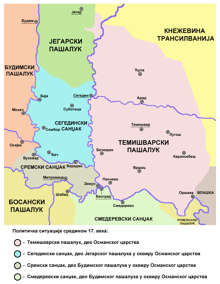 Historic map of the Eyalet of Temeşvar, Sanjak of Sirem and Sanjak of Segedin.